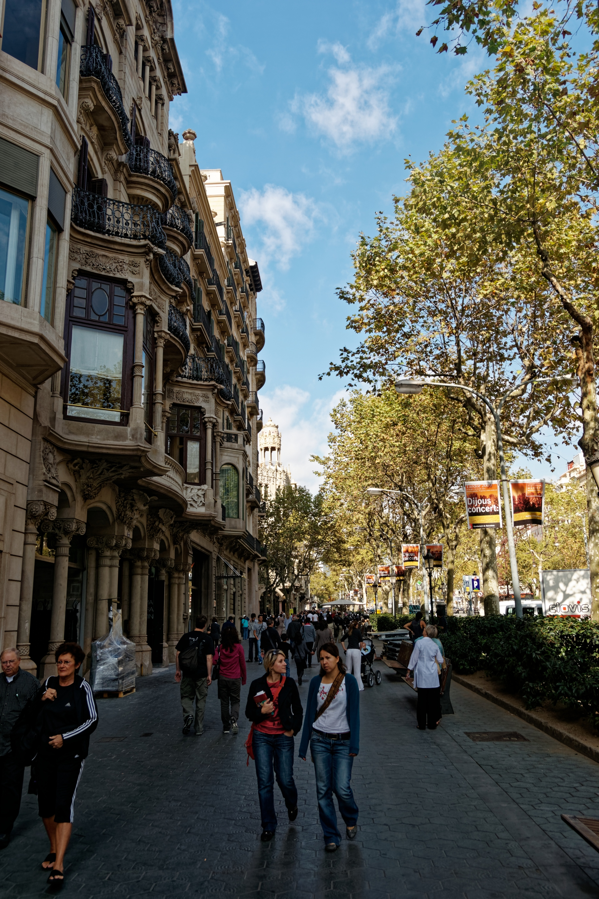 Barcelona - Passeig de Gràcia - View NW